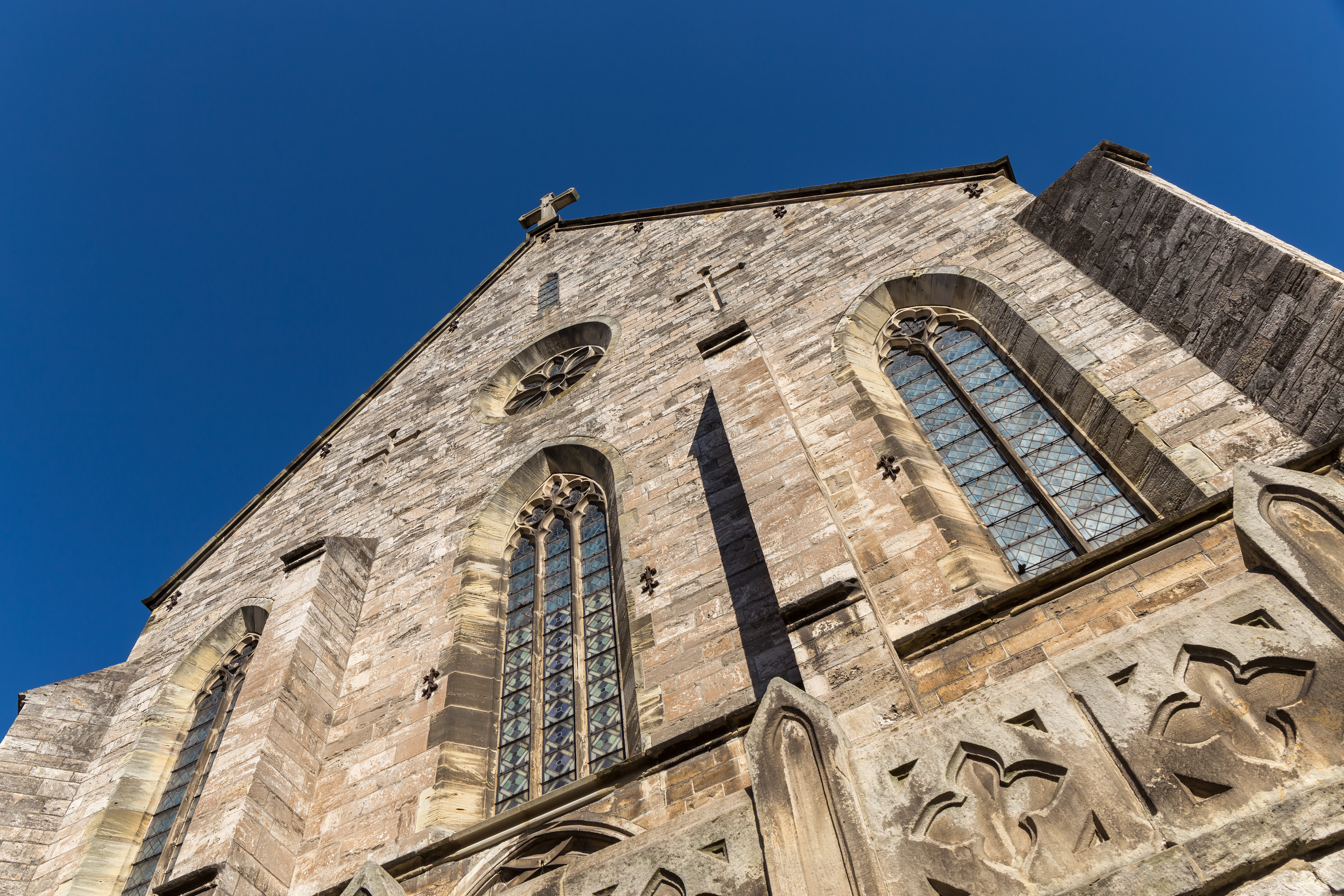 West facade of the church of St. Margaret (Ranis, Thuringia, Germany).